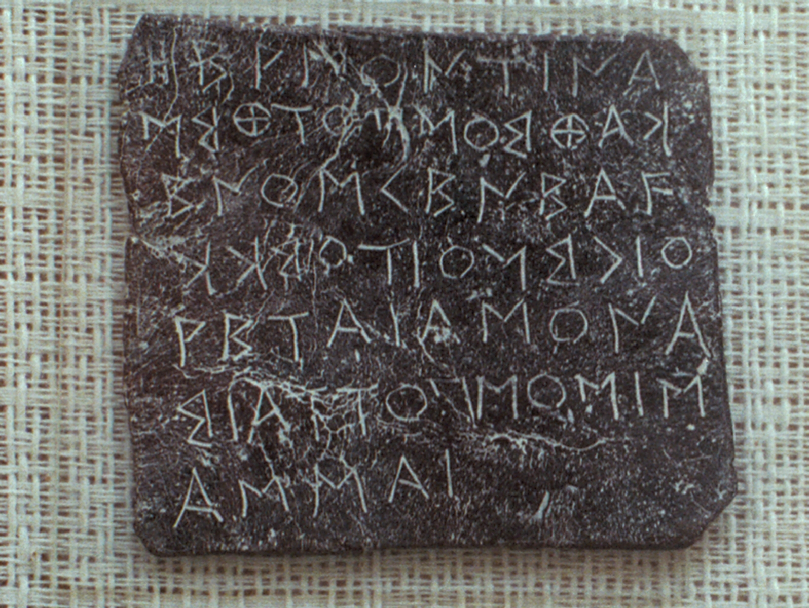 Lead plate, found in Dodona. The inscription is a request for divination. Late 6th century BC. Archaeological Museum of Ioannina M 12, 2941.